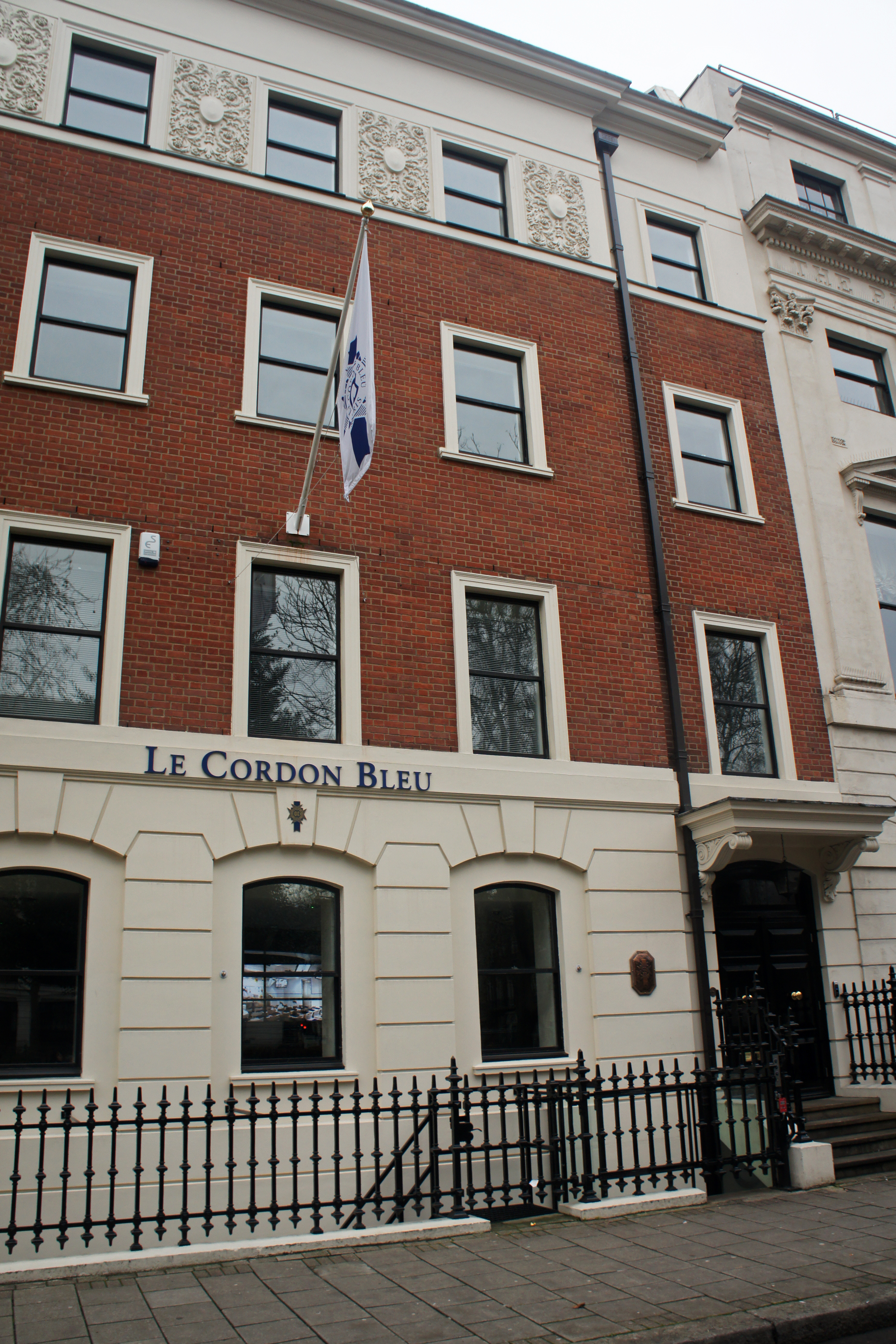 Le Cordon Bleu London culinary school, London, UK.